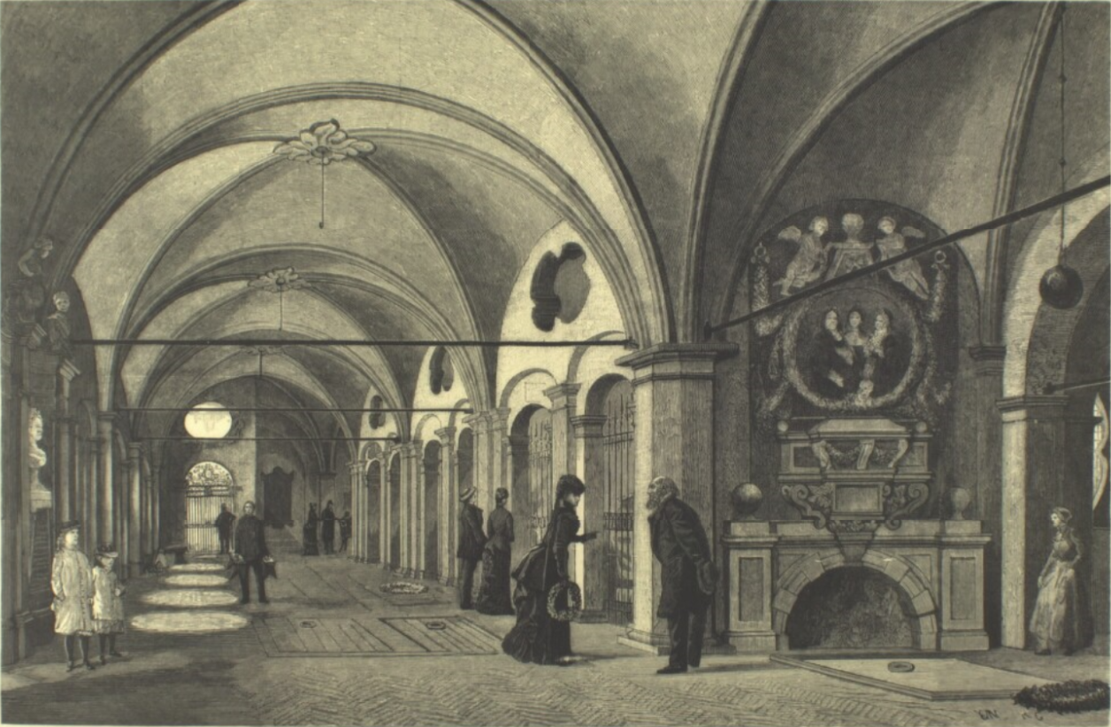 Interior drawing from Gravkapellet at Sankt Petri Kirke in Copenhagen, Denmark